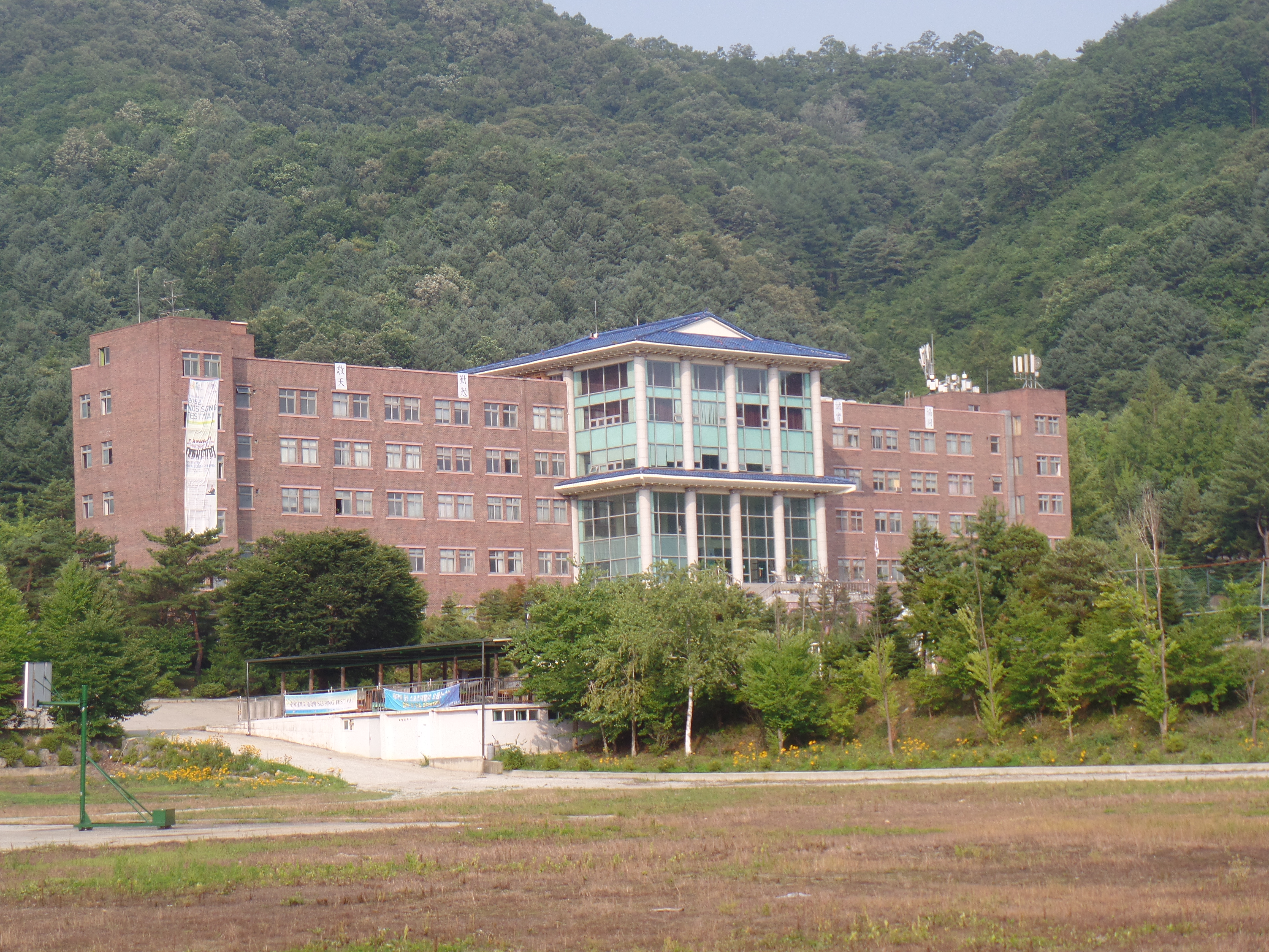 Songgok College Main Building